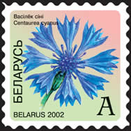 Stamp of Belarus